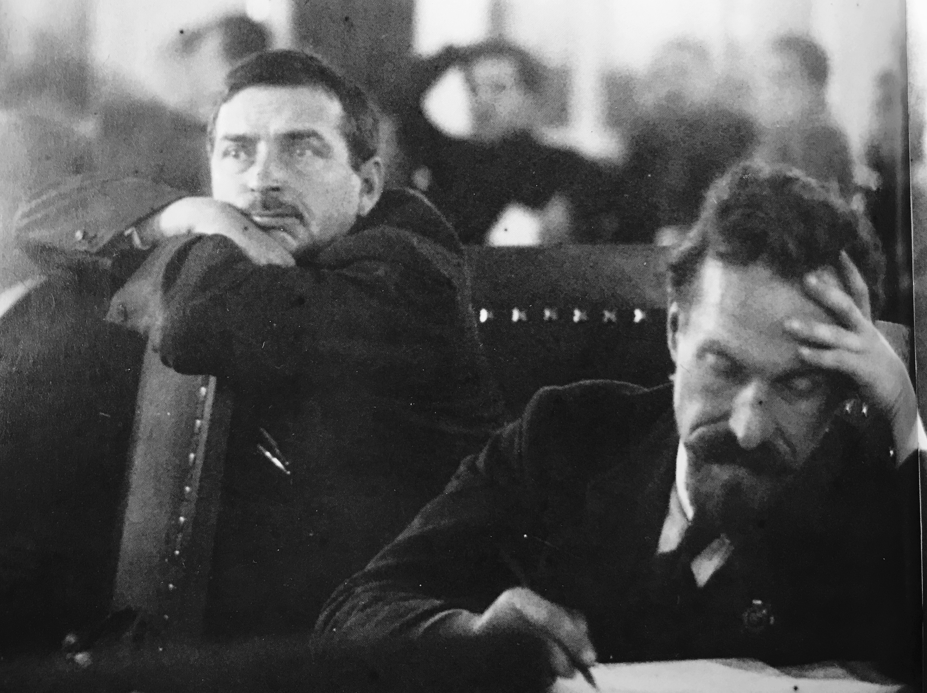 Tomski and Rykov, 1930